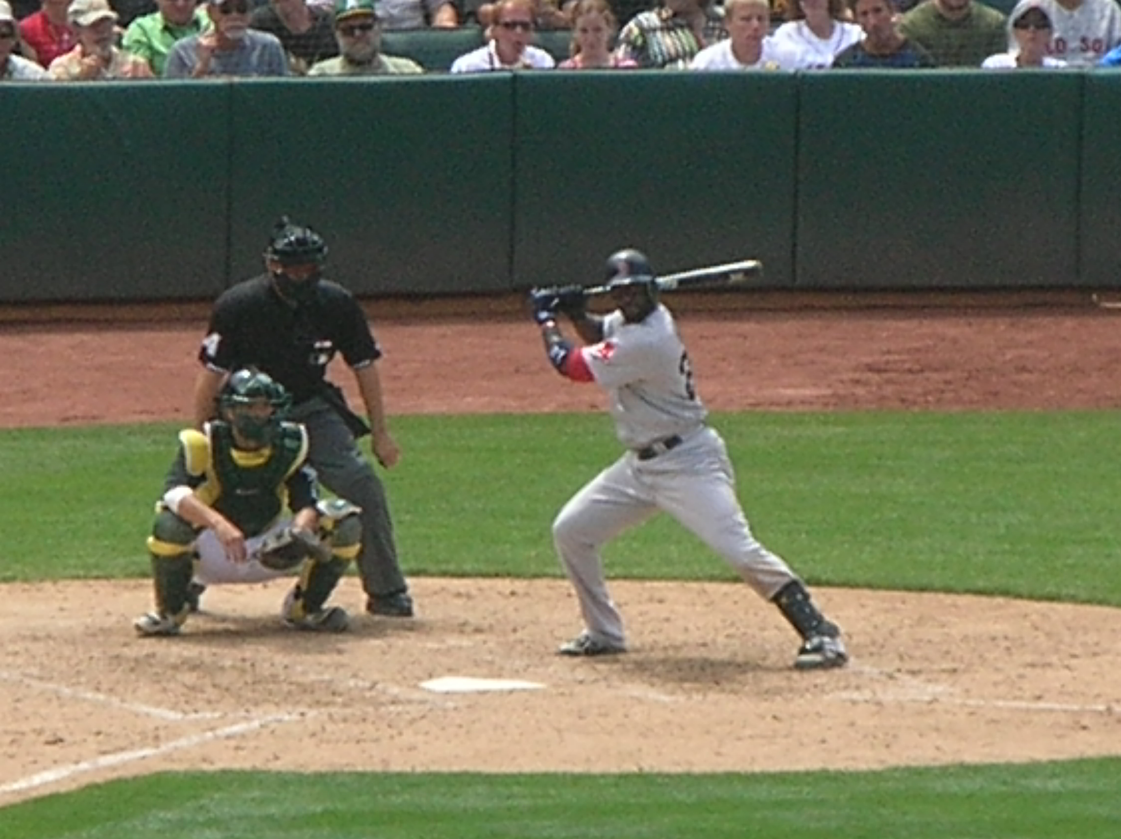 Boston Red Sox infielder Bill Hall at bat during an away game against the Oakland A's The A's won 6-4.